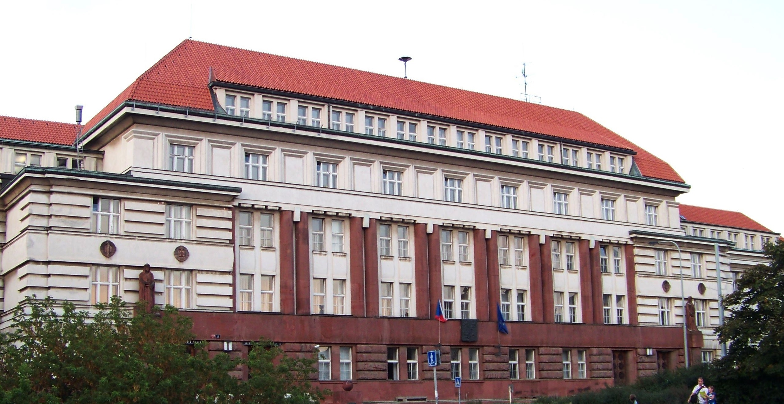 Prague-Nusle, the Czech Republic. Pankrác, Hrdinů Square, 5. května street, a courthouse.